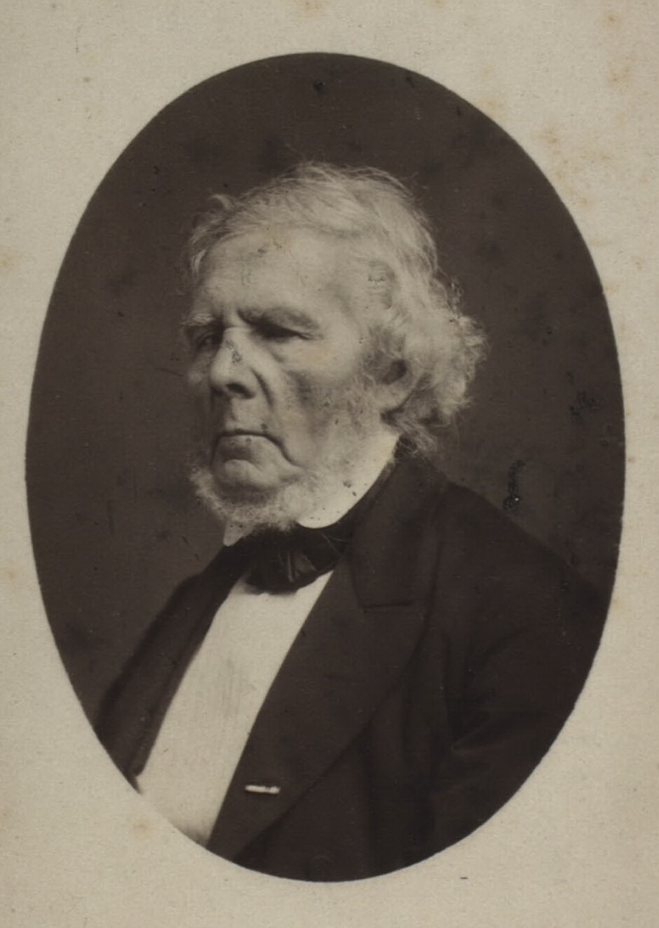 Danish jurist, Minister of Justice, MP Andreas Lorenz Casse (1803-1886)